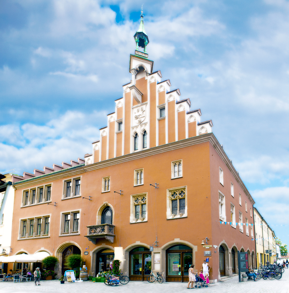 City Hall Straubing, Lower Bavaria